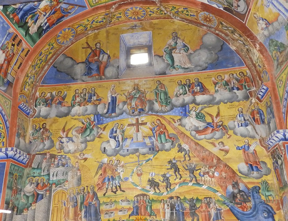 Fresco in the Church of the Ascension in Kalen, Macedonia